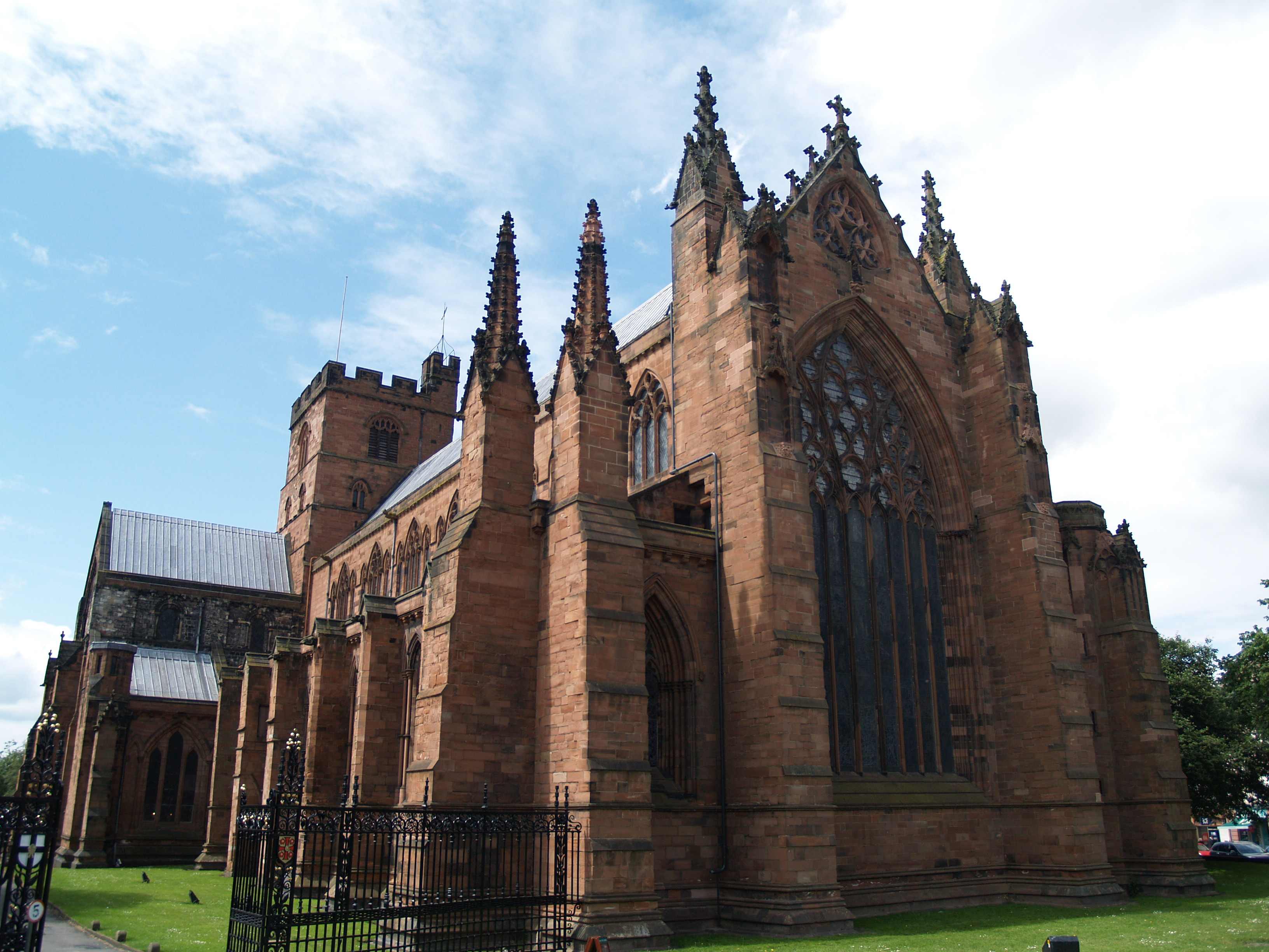 Carlisle Cathedral, East End with C 14 window